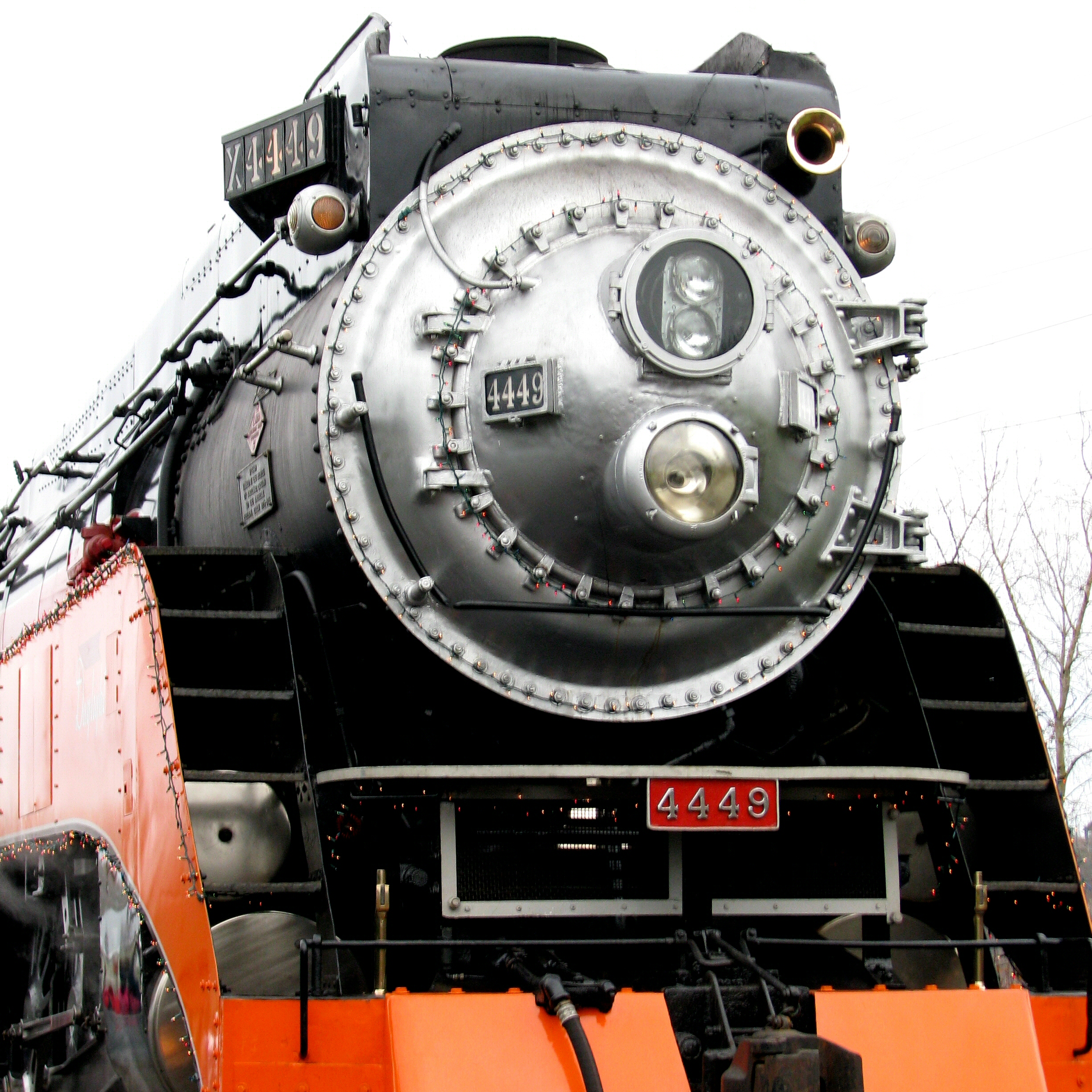 SP 4449 decked out for its annual excursions as the Holiday Express in Portland, Oregon, in December of 2007.